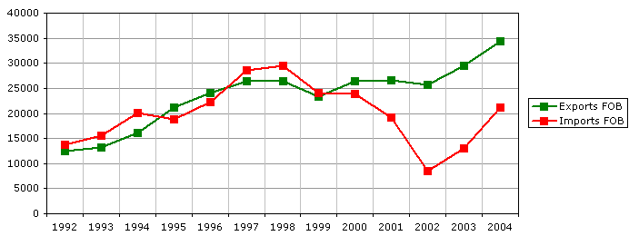 A chart showing the amount of exports and imports of Argentina, from 1992 to 2004. Note the slight trade surplus in 1995 and 1996, with trade deficit elsewhere, until the recession and the economic collapse of 2001, followed by currency devaluation, produced a sharp drop in imports. I (the wikipedian Pablo D. Flores) made this chart myself, using statistical data from the INDEC.